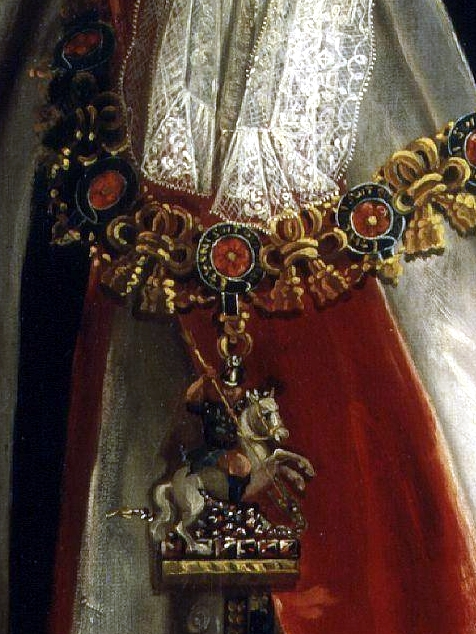 Portrait of Charles Townshend, 2nd Viscount Townshend (detail)